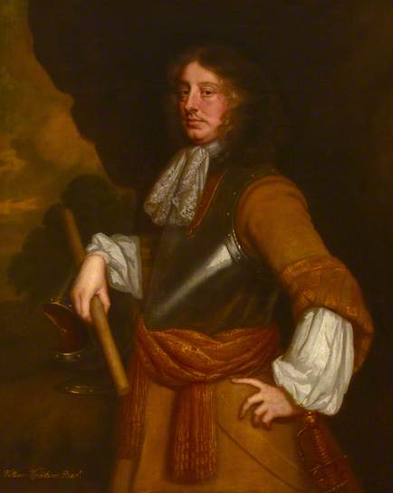 Sir William Wyndham, 1st Baronet (1633–1683), of Orchard Wyndham, Somerset. The 5th Baronet's mother was Lady Catherine Seymour, a sister of the 7th Duke of Somerset, through whom he inherited Petworth House in 1750. Provenance: accepted by HM Treasury, 1956, in lieu of death duties on the estate of Charles Henry Wyndham, 3rd Lord Leconfield, of Petworth House, transferred to the National Trust.